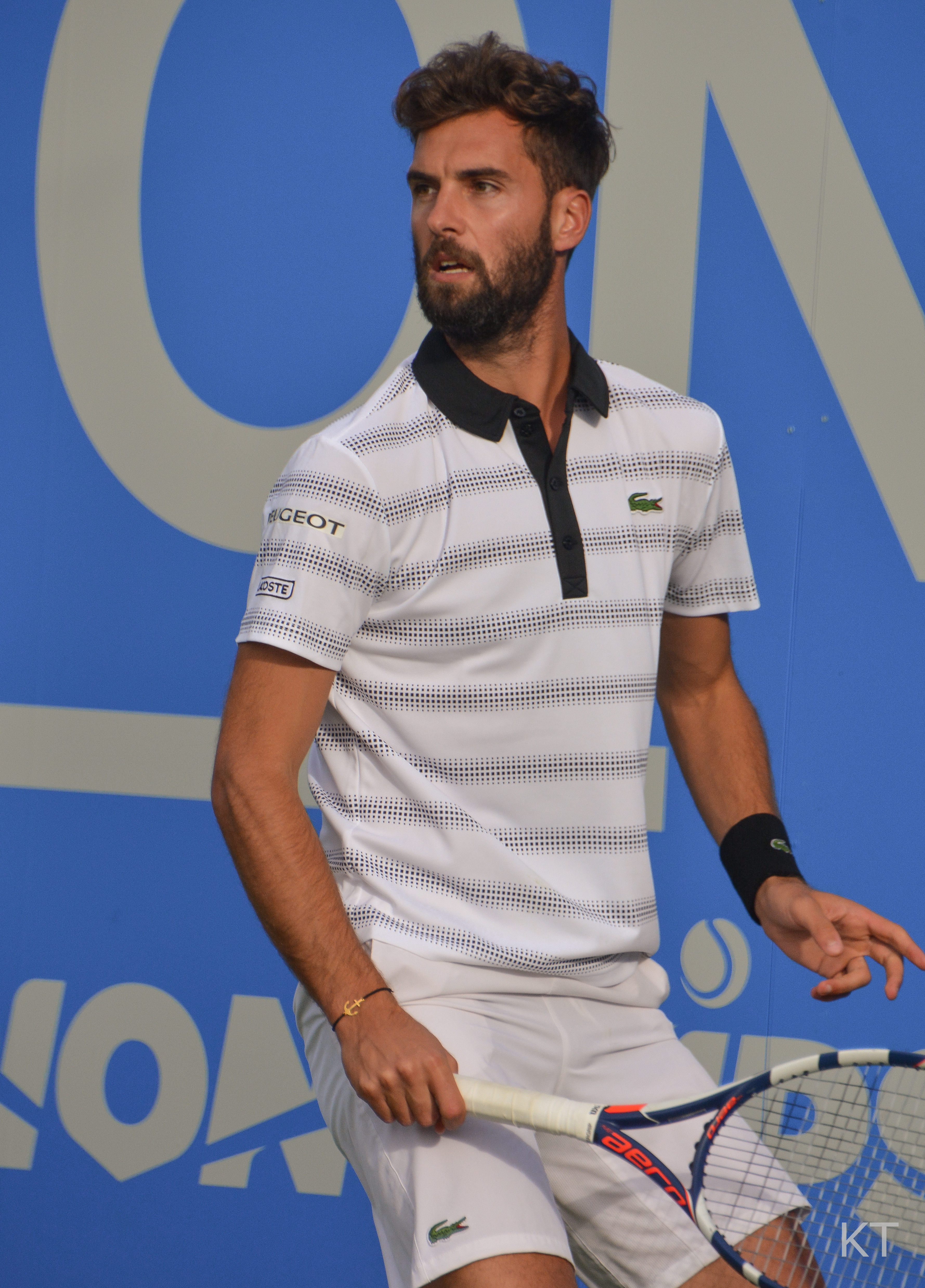 Benoit Paire v Aljaz Bedene in R1 at the Aegon Championships 2016. Bedene won 7-6, 6-7, 6-4.